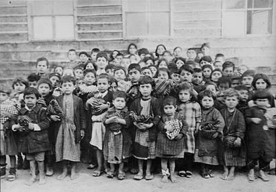 Armenian orphans in Aleppo collected from Arabs by Karen Jeppe.